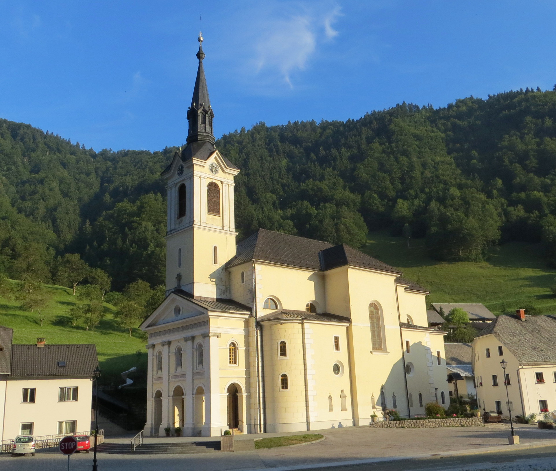 Saint Anthony's Church in Železniki, Municipality of Železniki, Slovenia